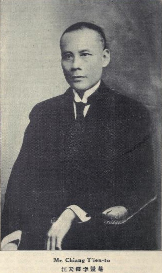 Jiang Tianduo, Jing'an (1878 - 1940)